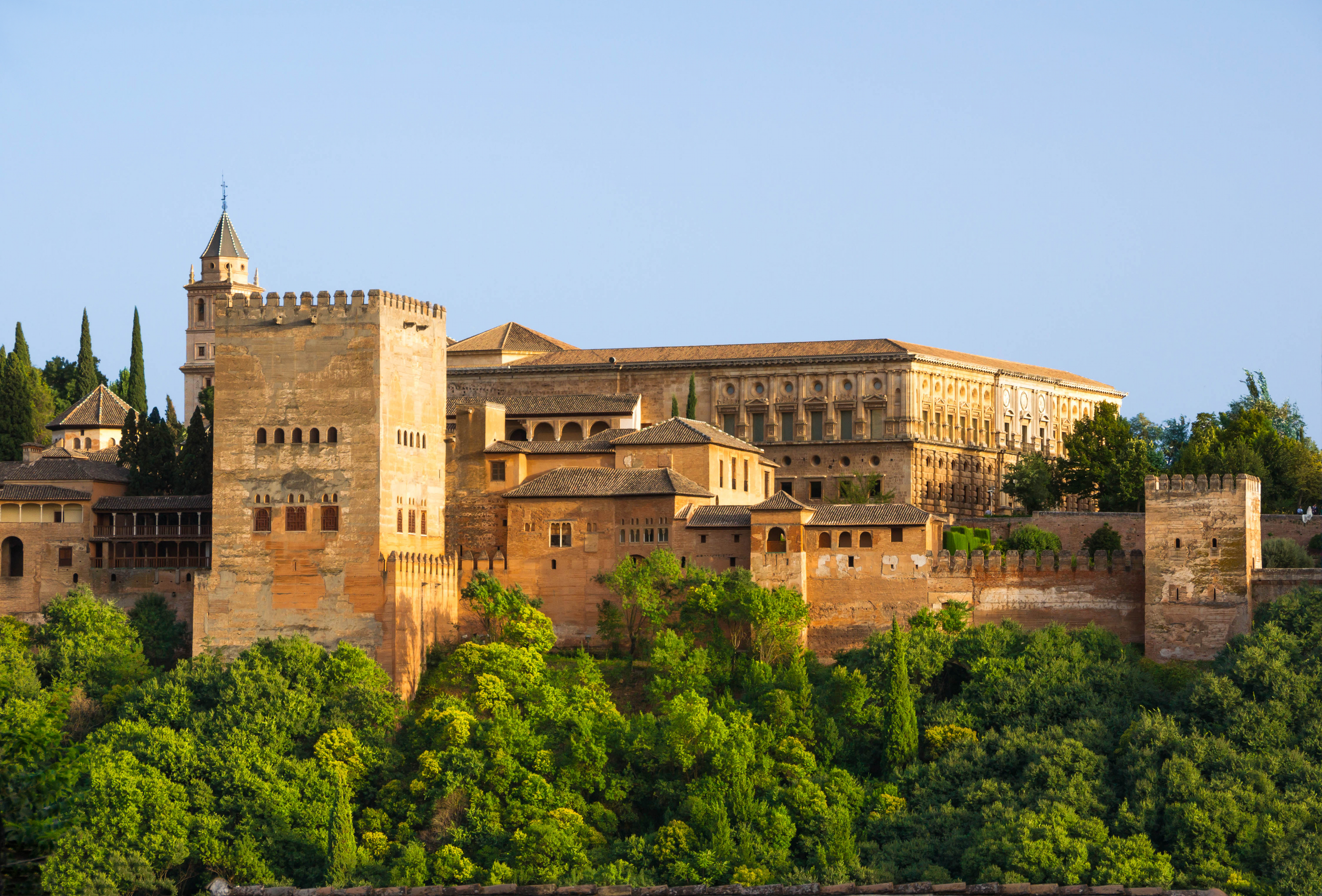 The Alhambra, detail. Granada, Spain.